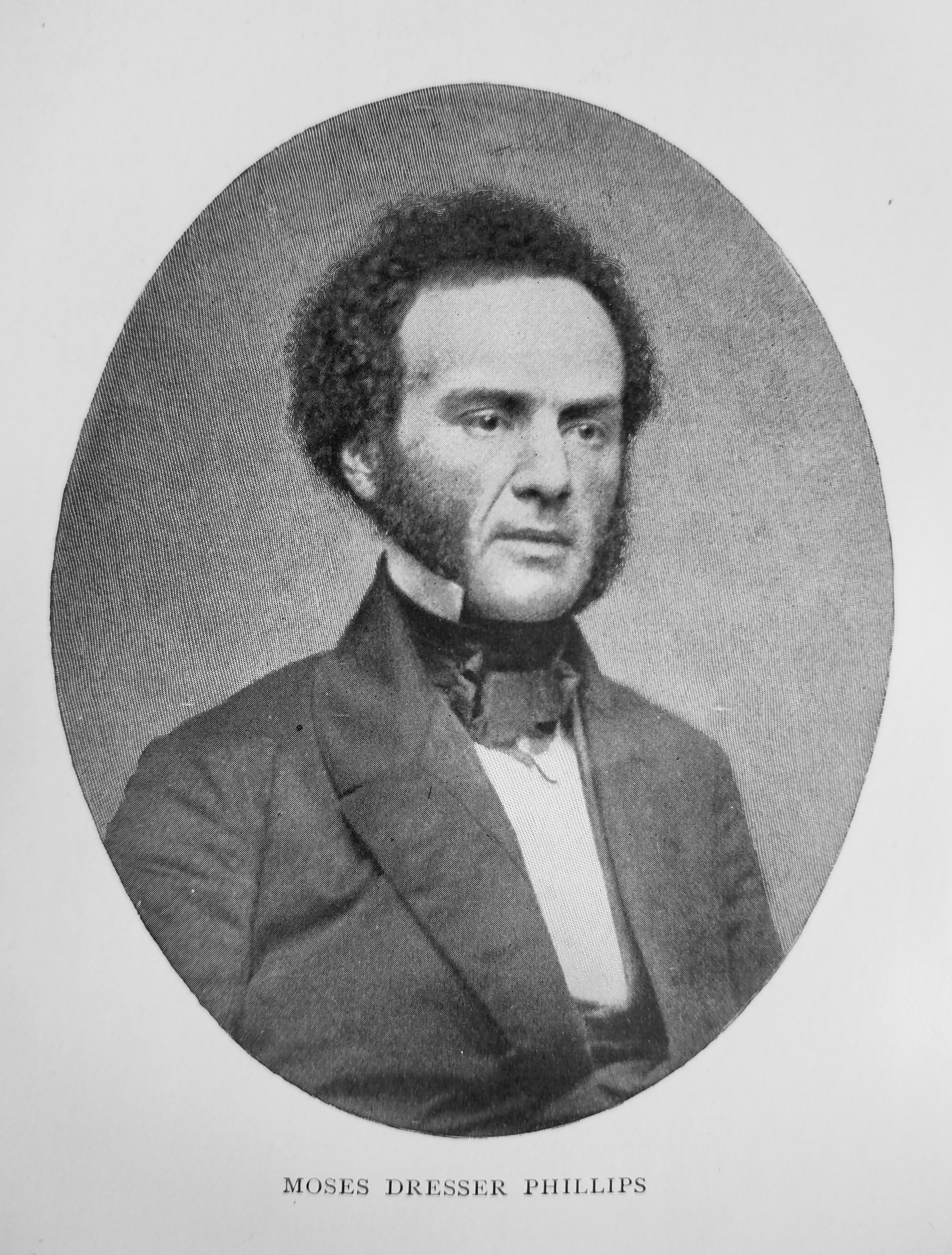 Moses Dresser Phillips, date unknown. From "James Russell Lowell and His Friends", by Edward Everett Hale, 1898.